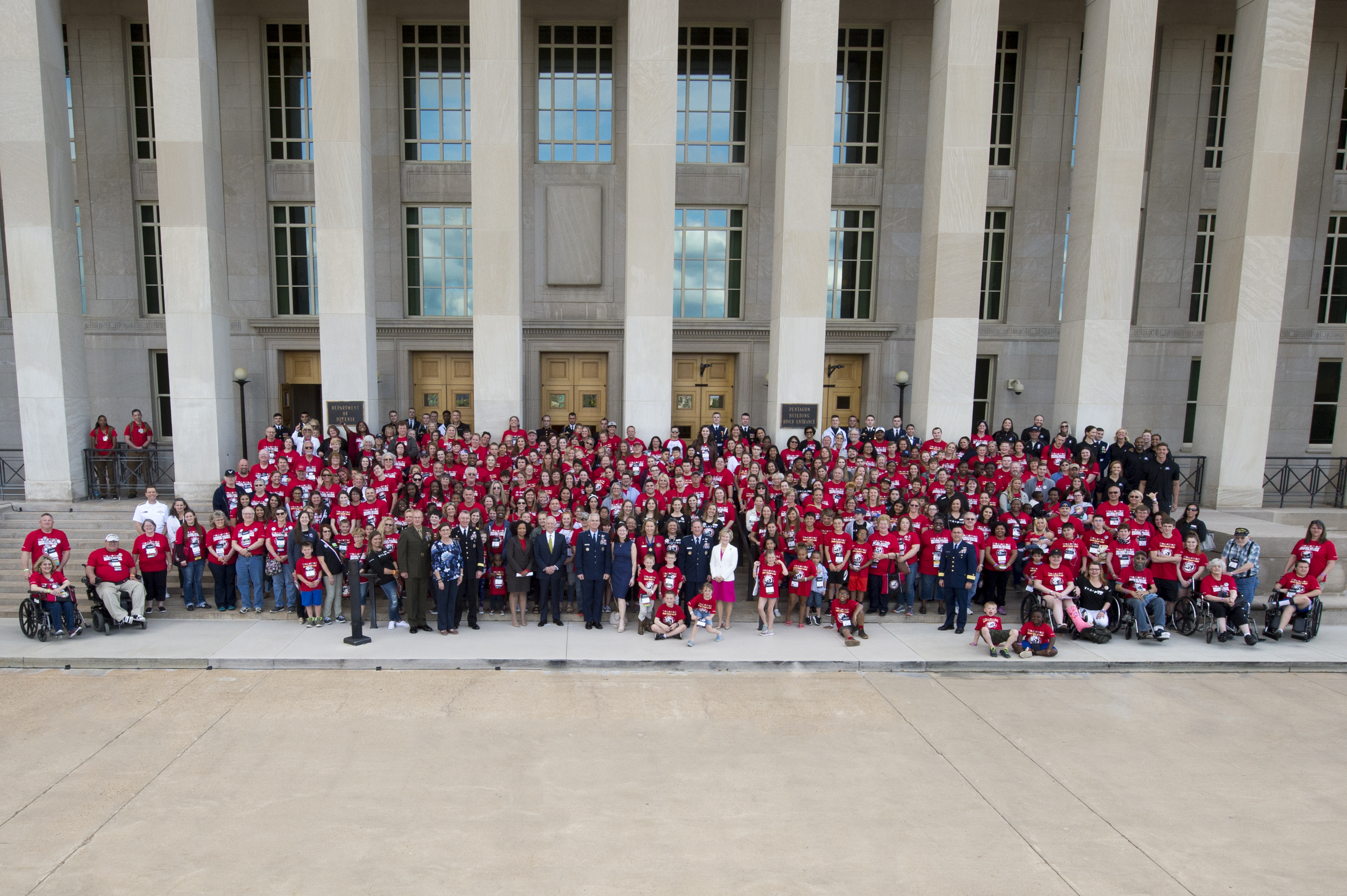 Secretary of Defense Jim Mattis speaks with members of the Tragedy Assistance Program for Survivors during their visit to the Pentagon in Washington, D.C., May 25, 2017. The Pentagon hosted the families for a day of fun and remembrance in honor of Memorial Day. (DOD photo by U.S. Army Sgt. Amber Smith)